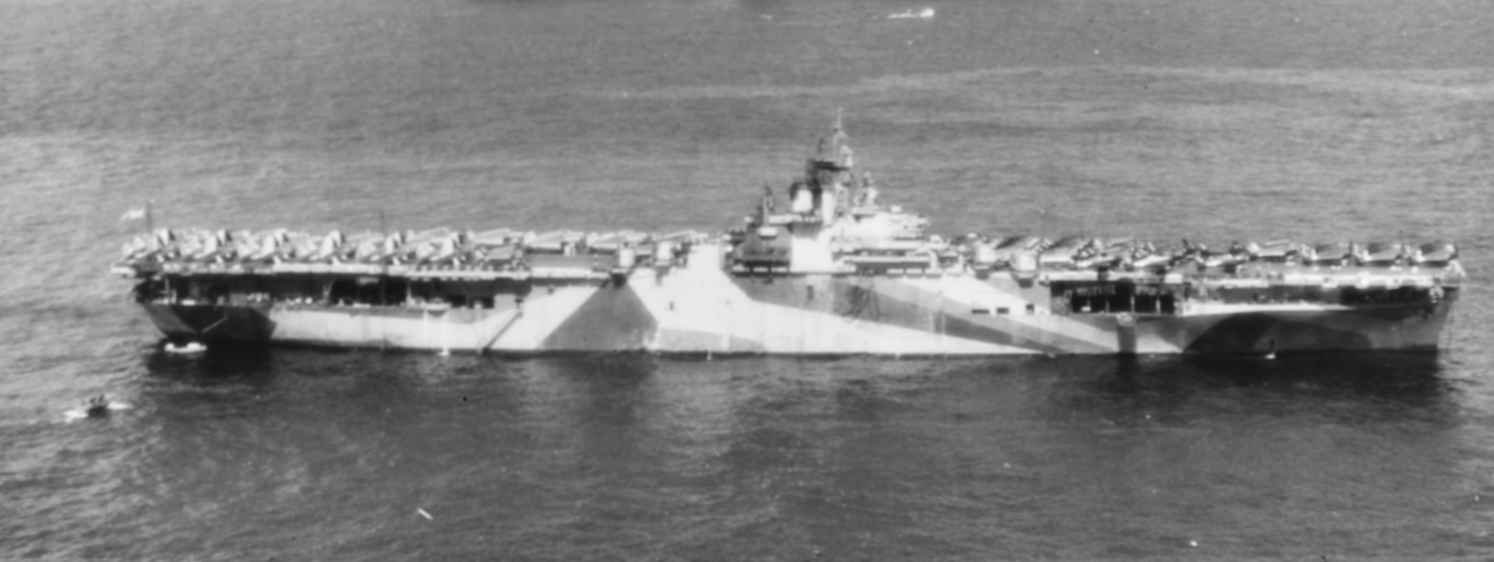 The U.S. Navy aircraft carrier USS Wasp (CV-18) at anchor in Ulithi Atoll, 8 December 1944, during a break from operations in the Philippines area. Wasp is painted in Camouflage Measure 33, Design 10A.